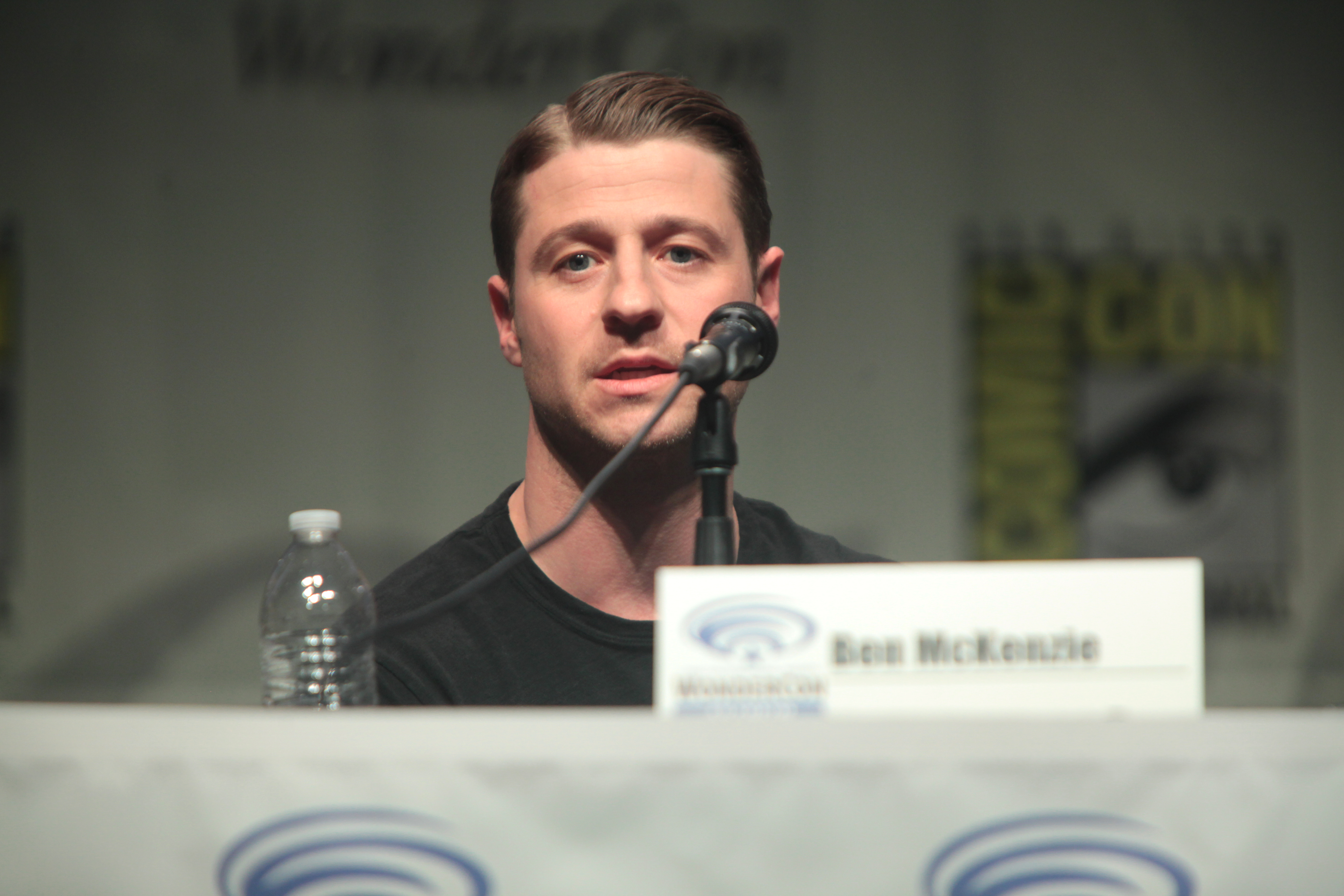 Ben McKenzie speaking at the 2015 Wondercon, for "Gotham", at the Anaheim Convention Center in Anaheim, California.